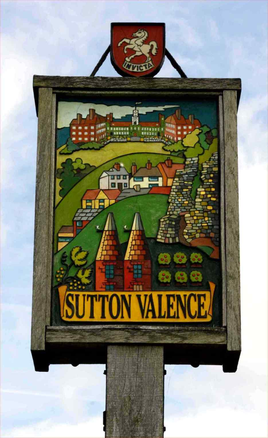 Ornate road sign for Sutton Valence village, near Maidstone, Kent, England